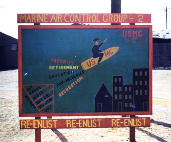 Re-enlistment sign from Pohang, Korea for Marine Air Control 2. This 35mm slide was purchased on eBay in 2017.